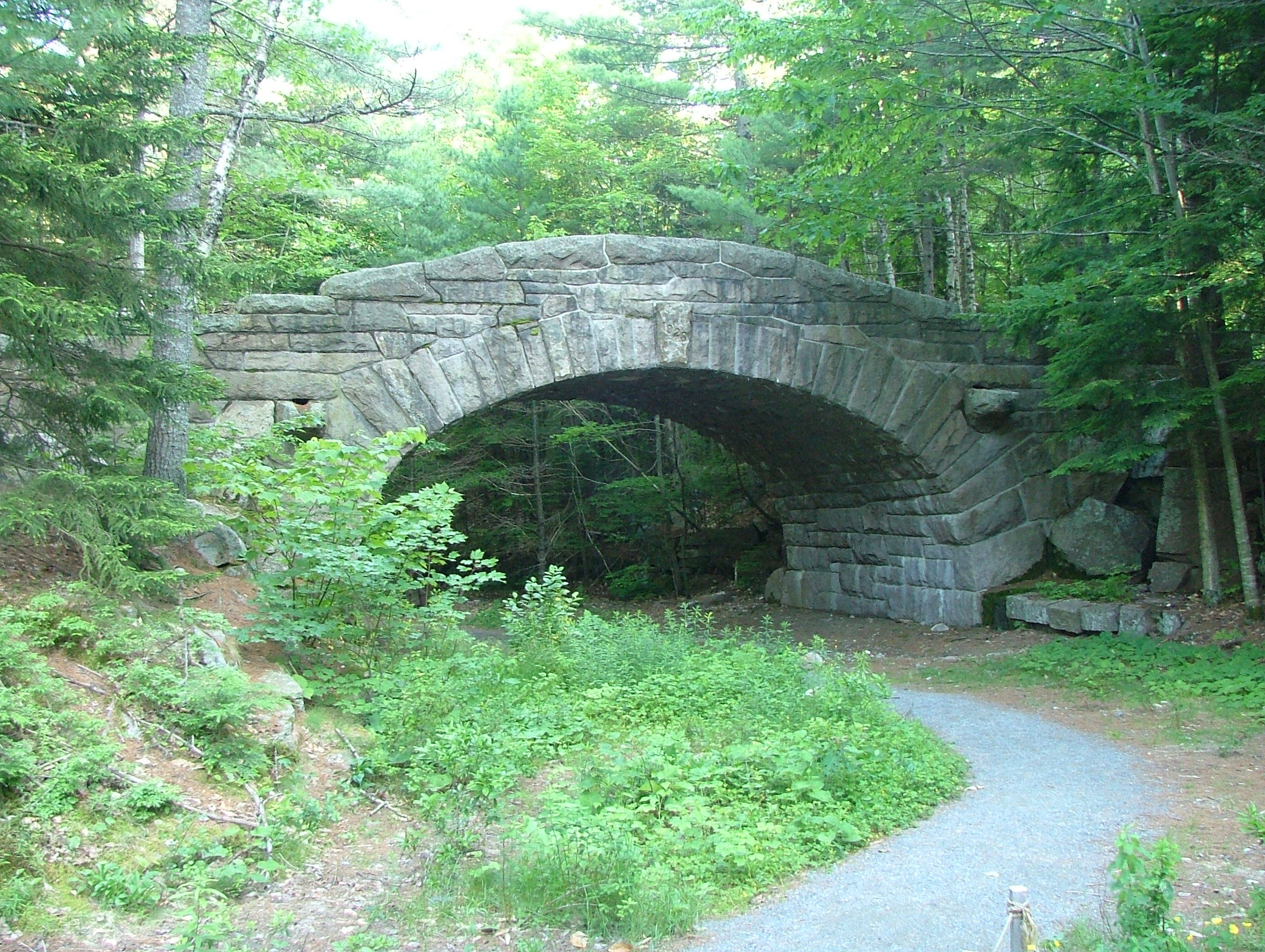 One of the Granite Bridges build by John D. Rockefeller, Sr. in acadia National Park, Maine.